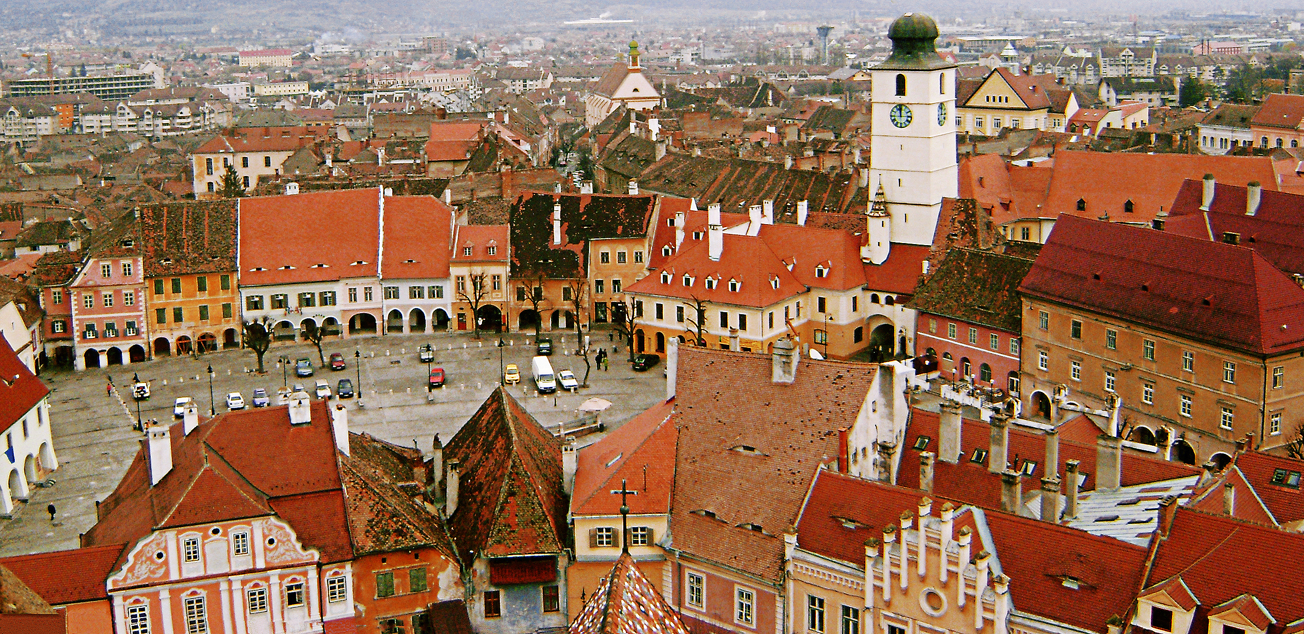 Piata Mica in Sibiu, Romania